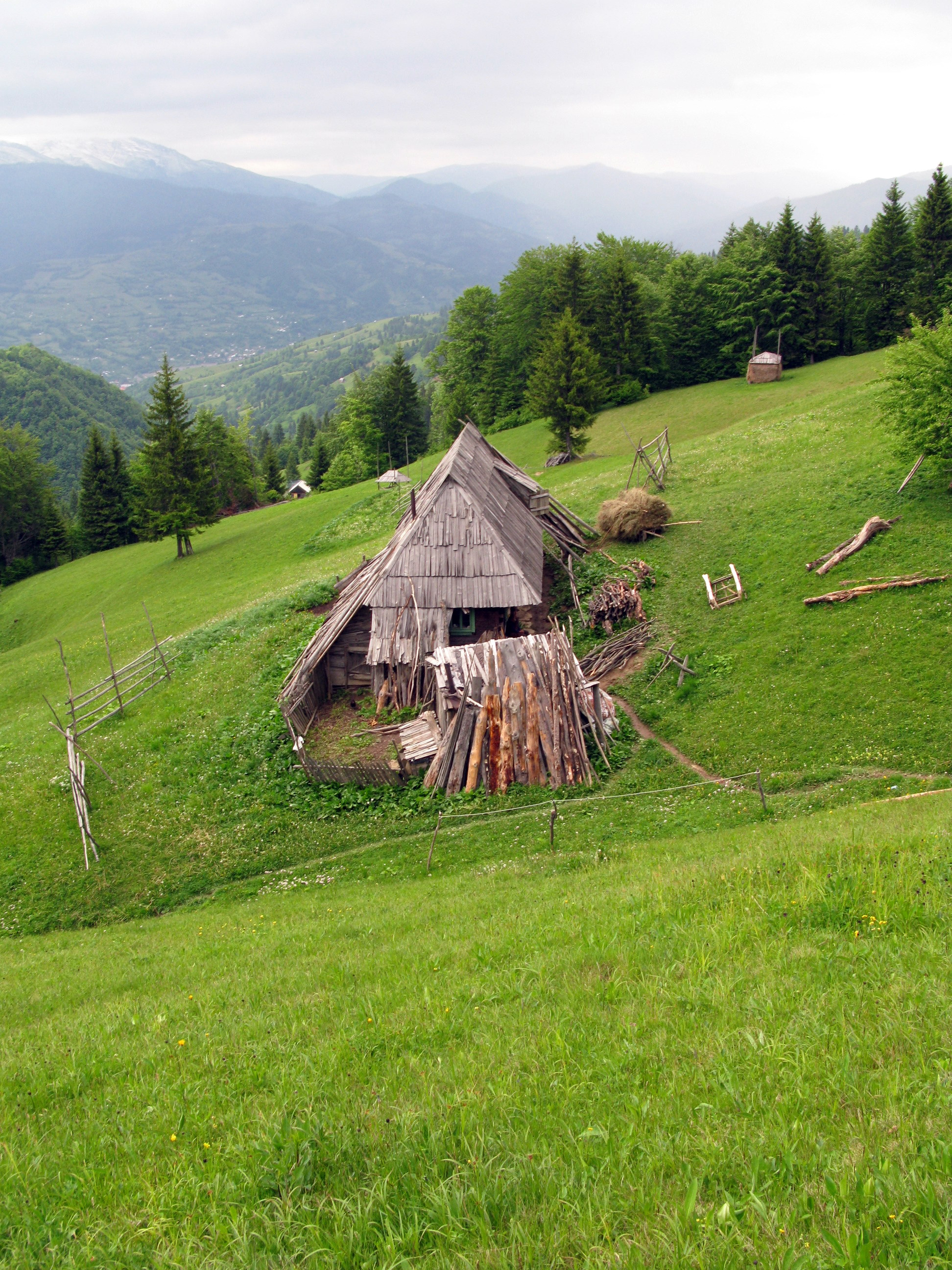 Hillfort Obcina near Poienile de Sub Munte or in the rear Valea Vinului Maramureş Mountains (Inner Eastern Carpathians) in north of Rumania / EU.